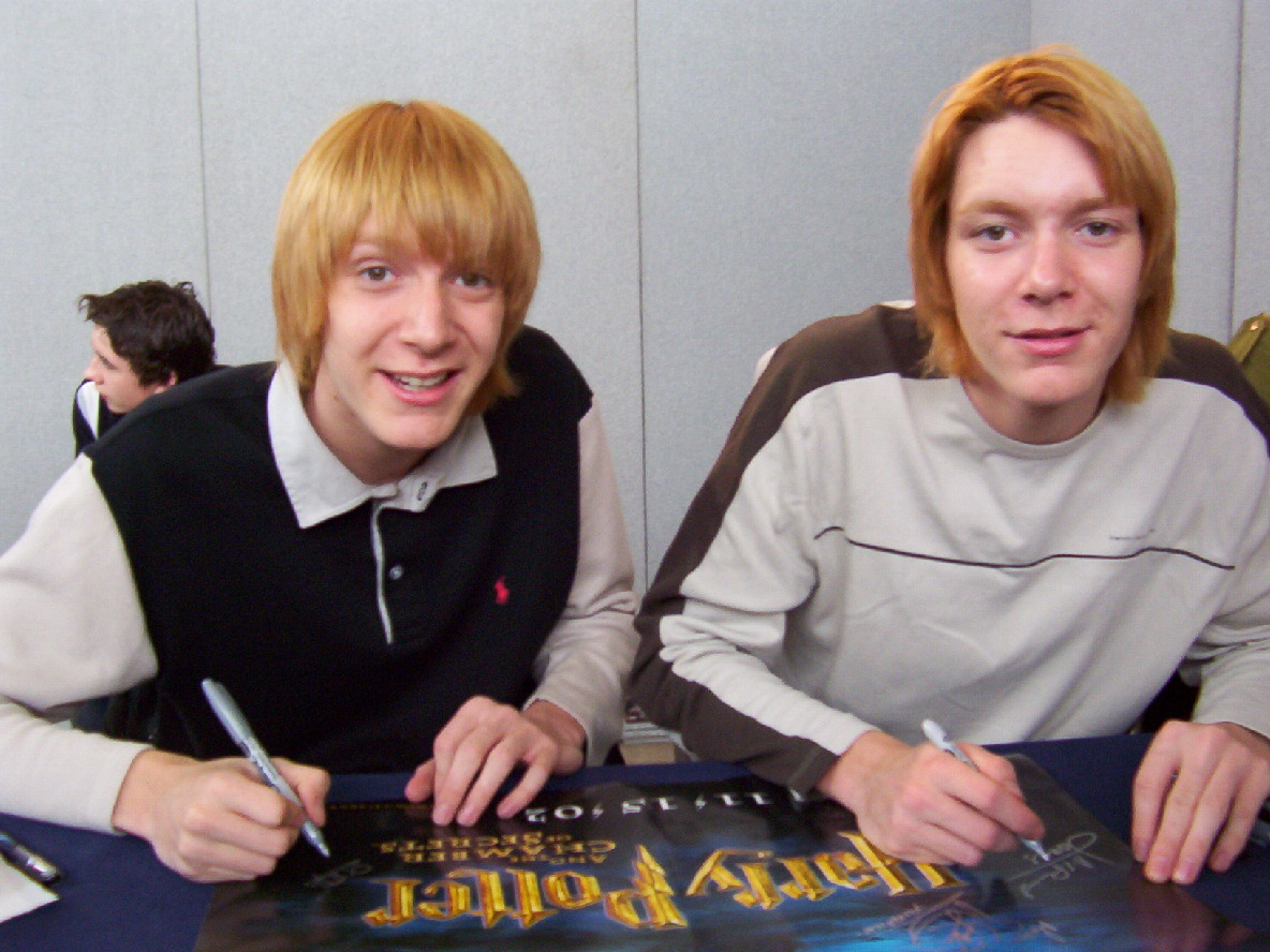 James & Oliver Phelps